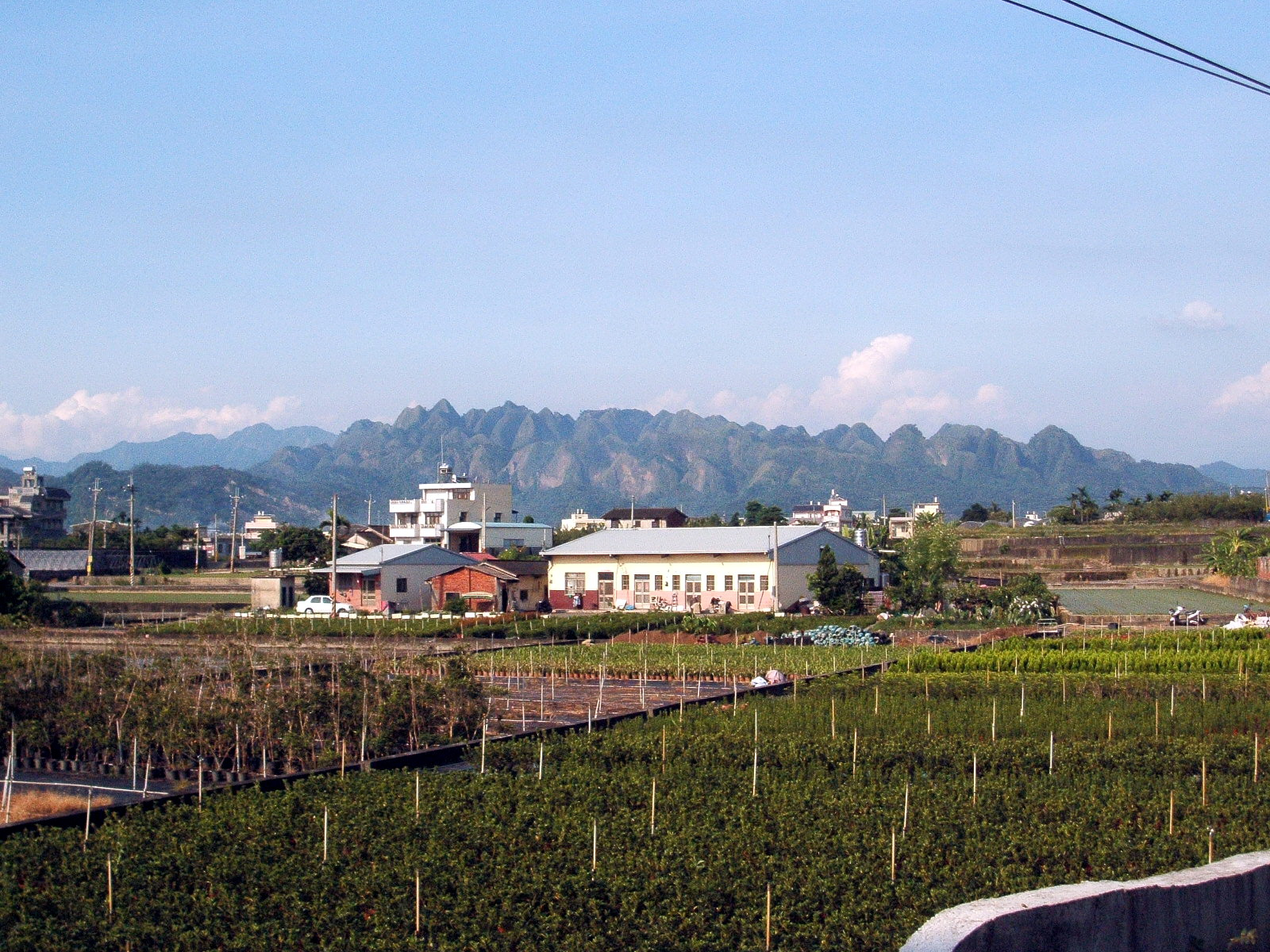 Jiujiufeng. It was taken near Taiwan Provincial Road No.14 in Caotun Township,Nantou County,Taiwan.